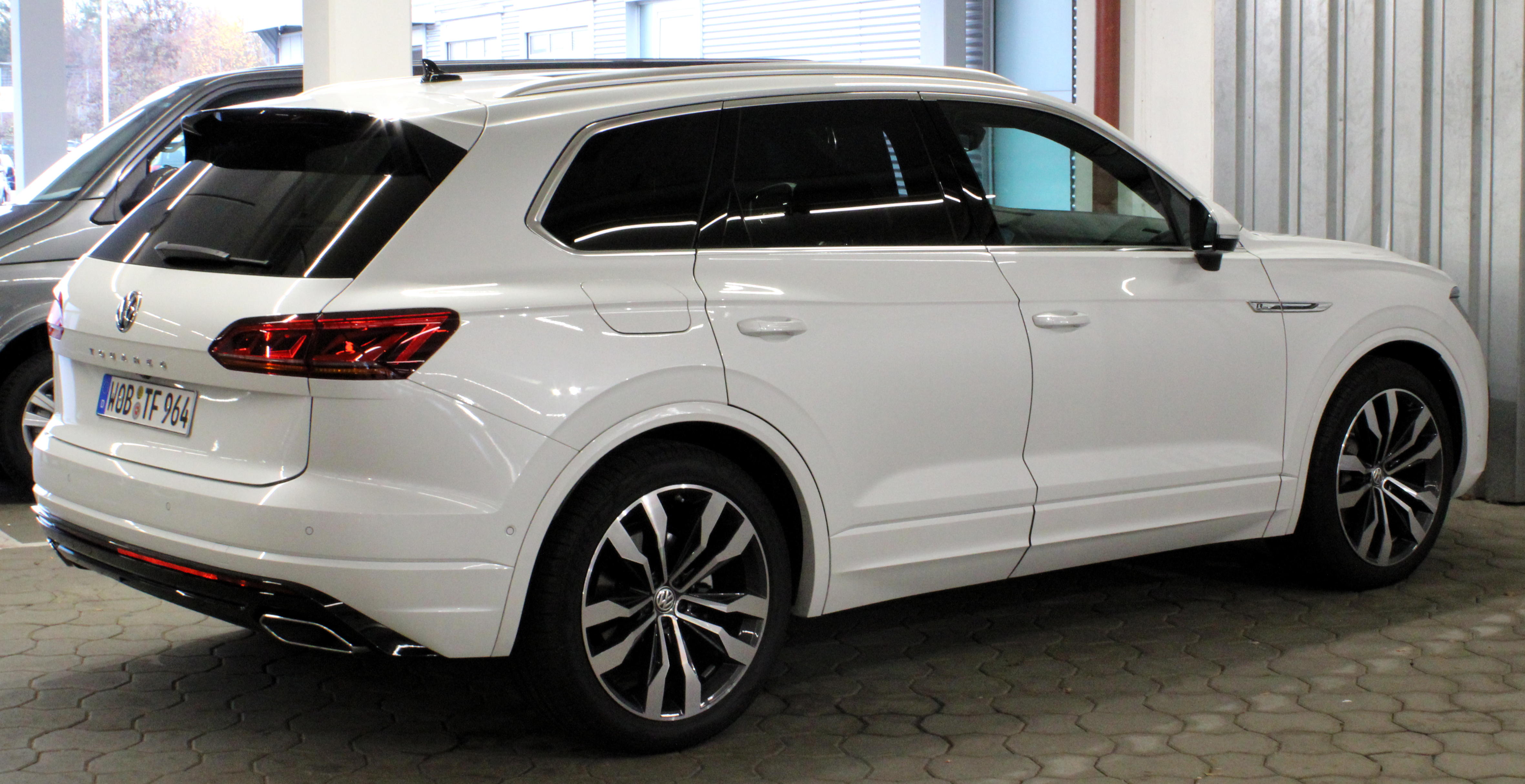 Volkswagen Touareg III in Stuttgart-Vaihingen